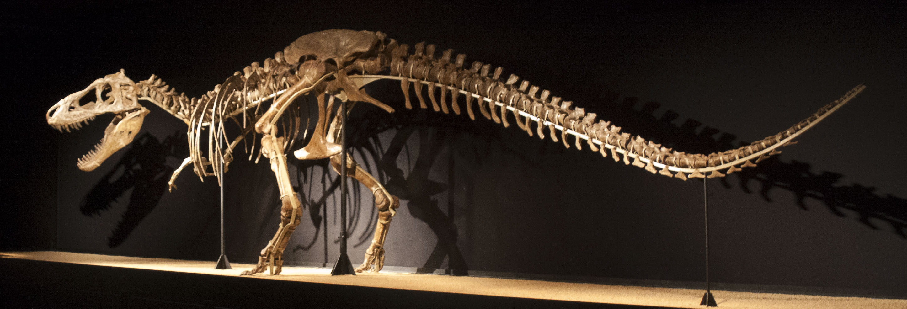 Skeleton of Tarbosaurus baatar in Barcelona.